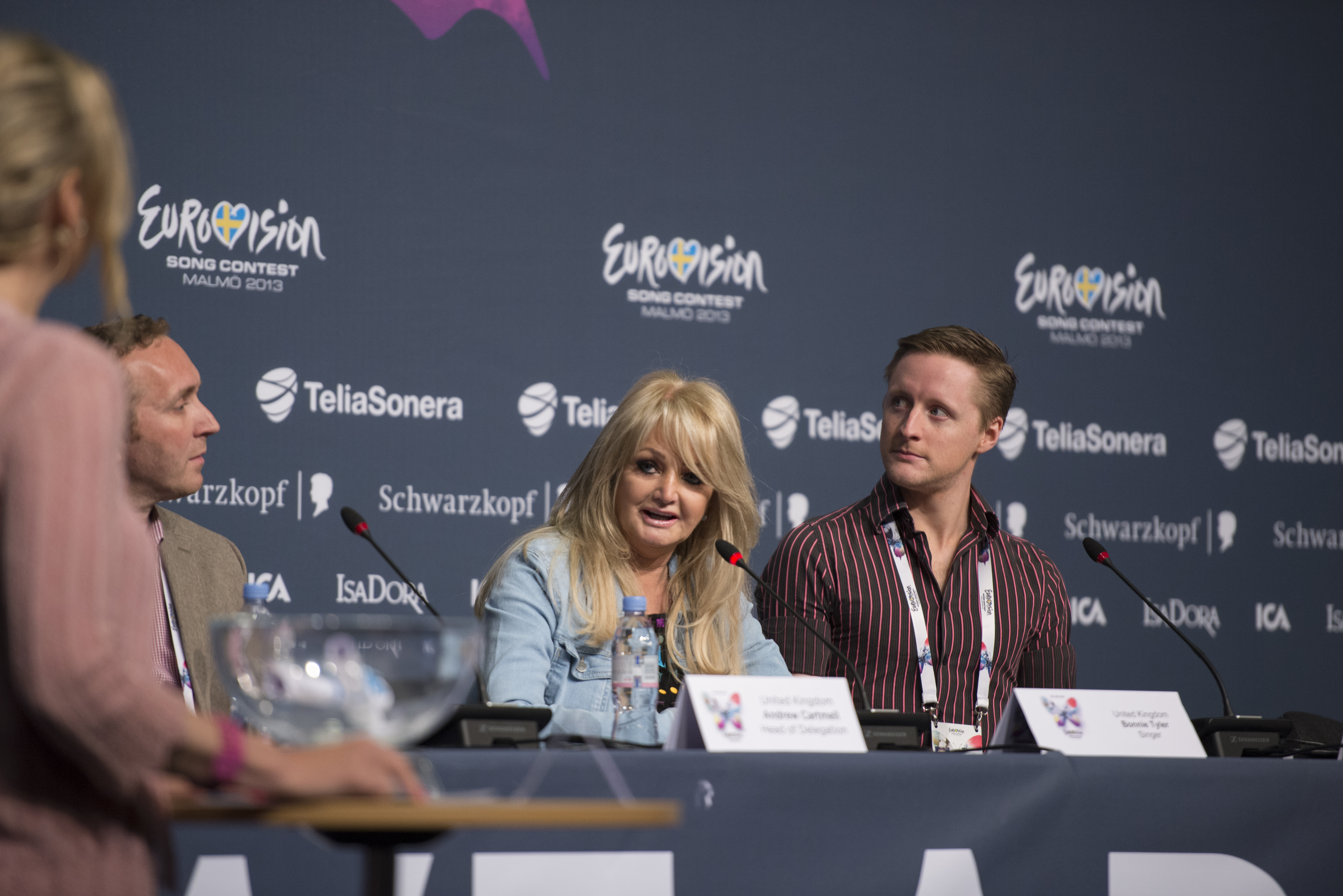 Bonnie Tyler at a press conference during the Eurovision Song Contest 2013 in Malmö. (Help translate this text)